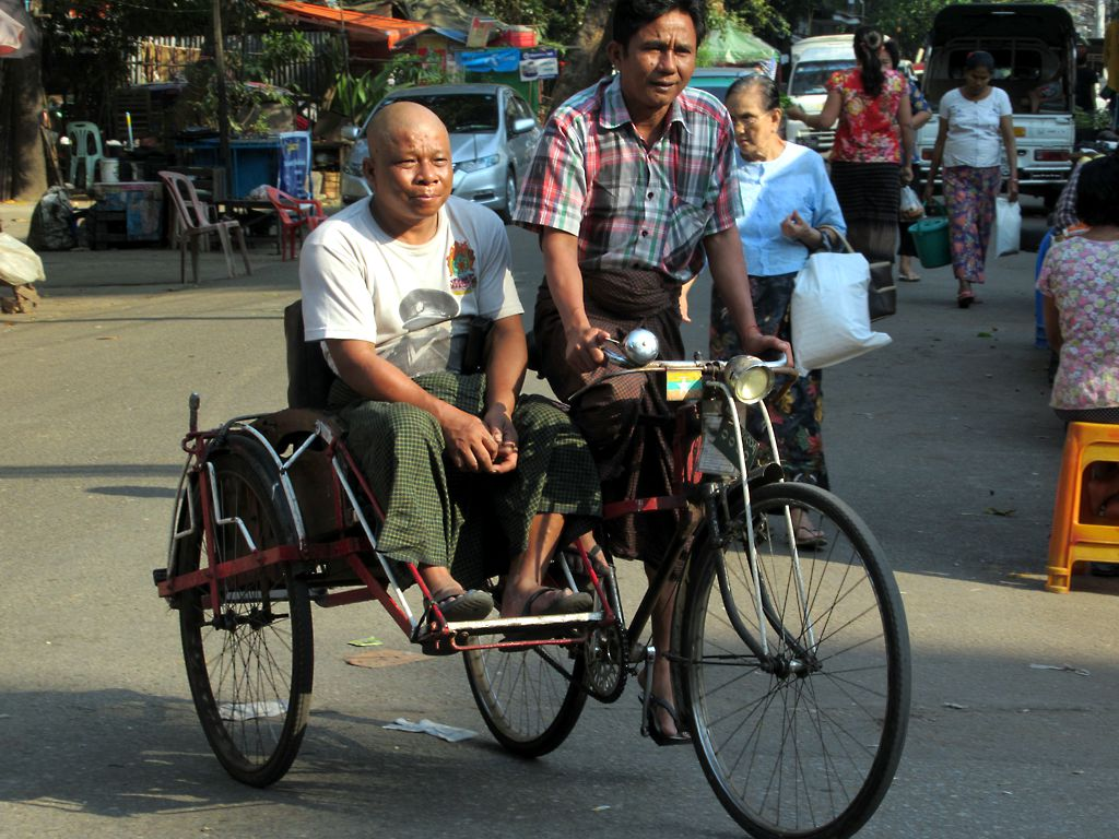 Though banned in the city center, cycle rickshaws are still a means of transportation on the back streets of Yangon, Myanmar (Burma).